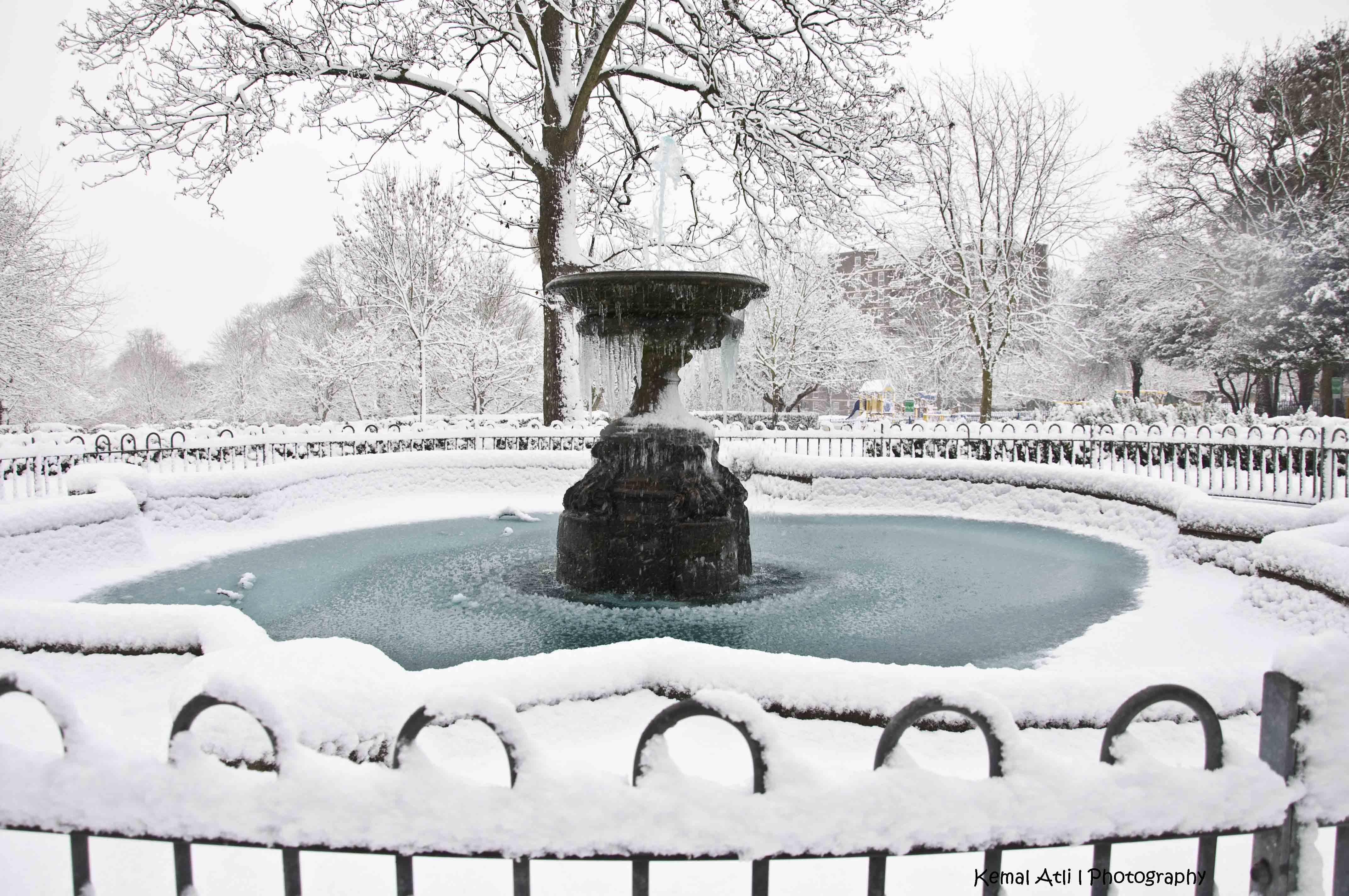 Snow in Manor Park Sutton